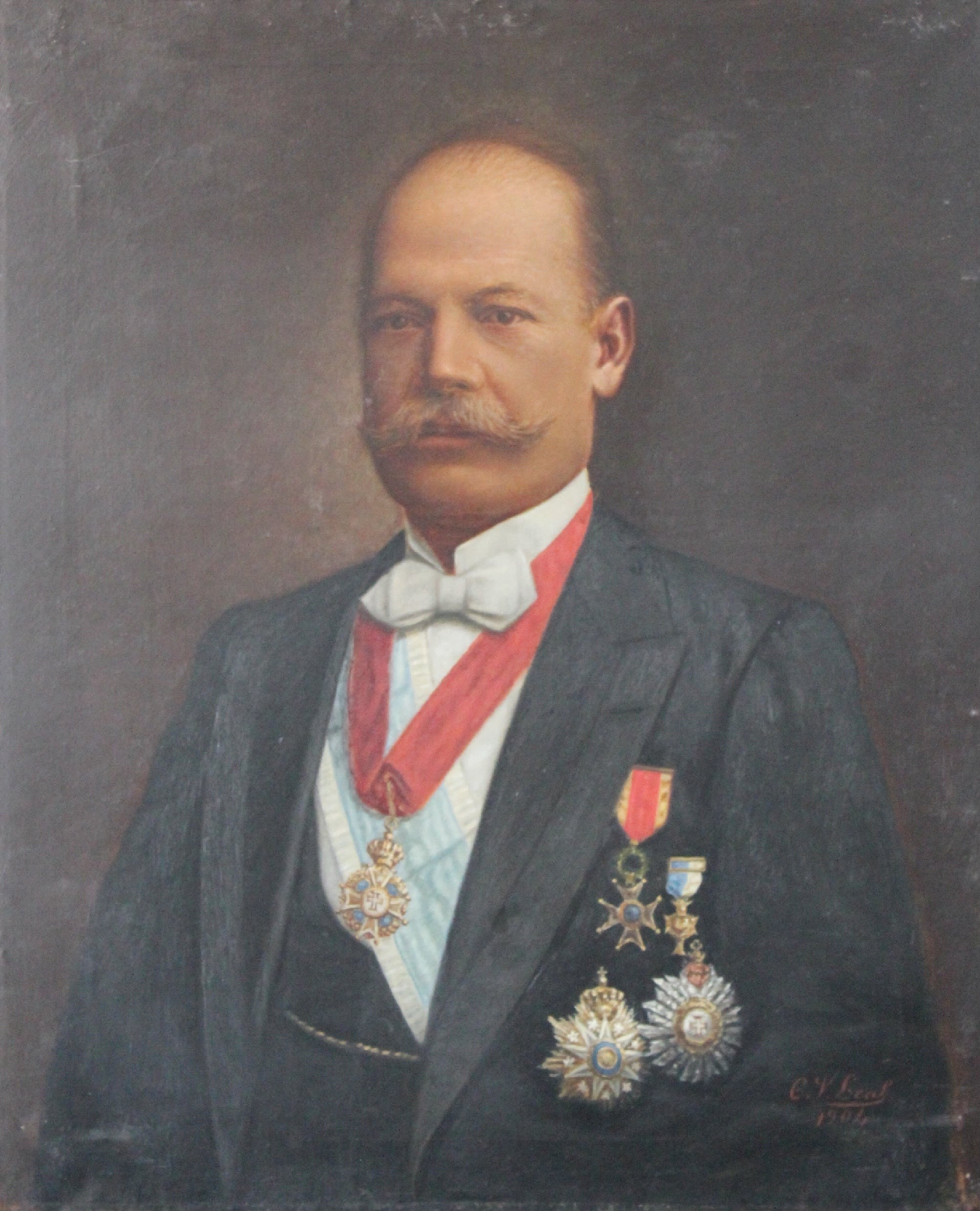 Portrait of D. José Rodrigues de Sucena, Count of Sucena (1850-1925), by Christiano Vicente Leal (1841-1911).